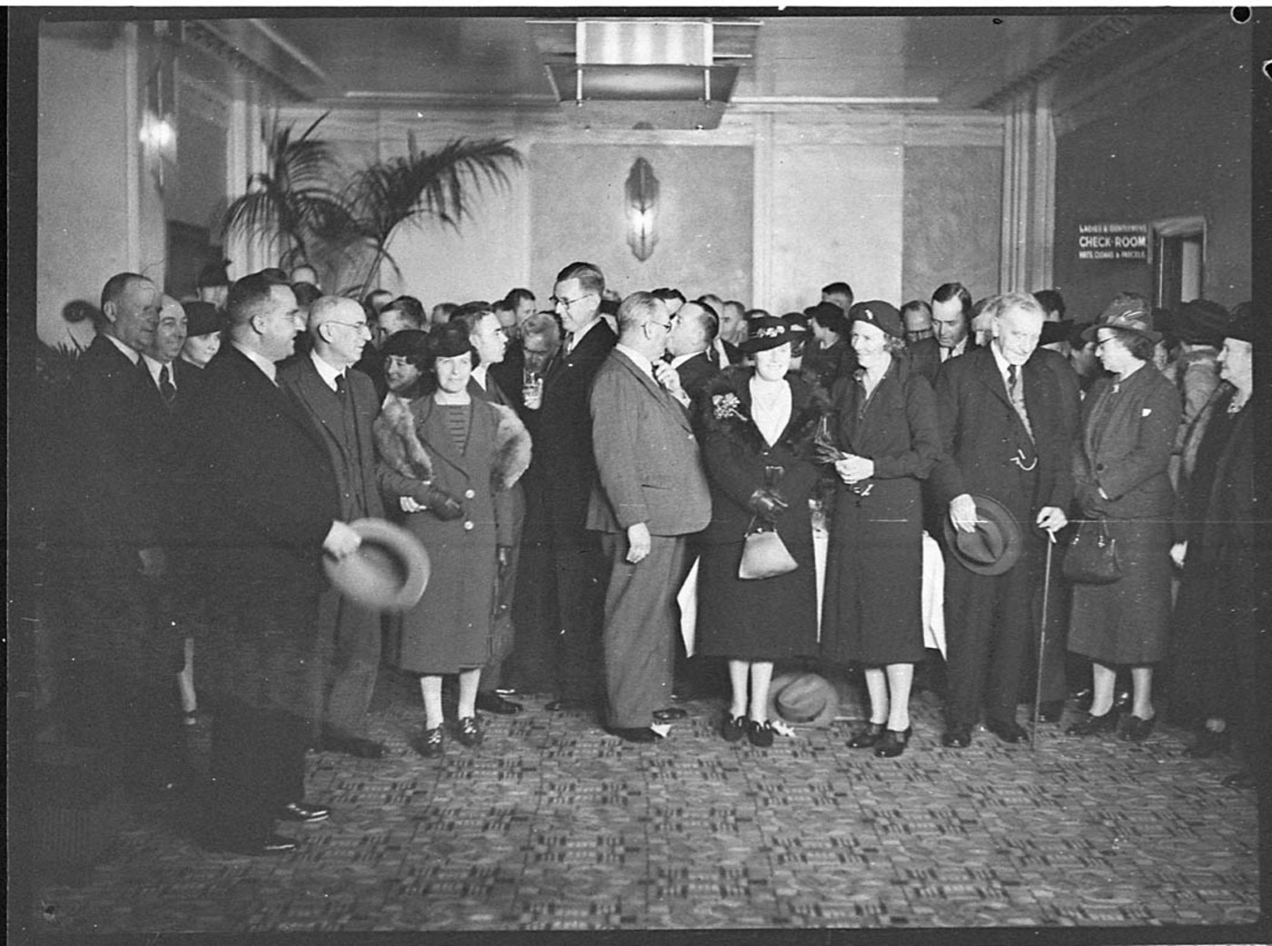 Premiere of "Broken Melody", day & night, Embassy (taken for British Empire Films)